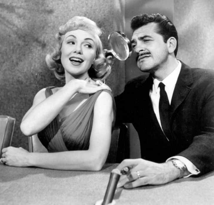 Promotional photo of Ernie Kovacs and Edie Adams from his television show, Take a Good Look. This photo was produced prior to 1978 and has no copyright markings. It can be dated by the ABC information on the back of the photo which is shown in the original upload and the photo link above.